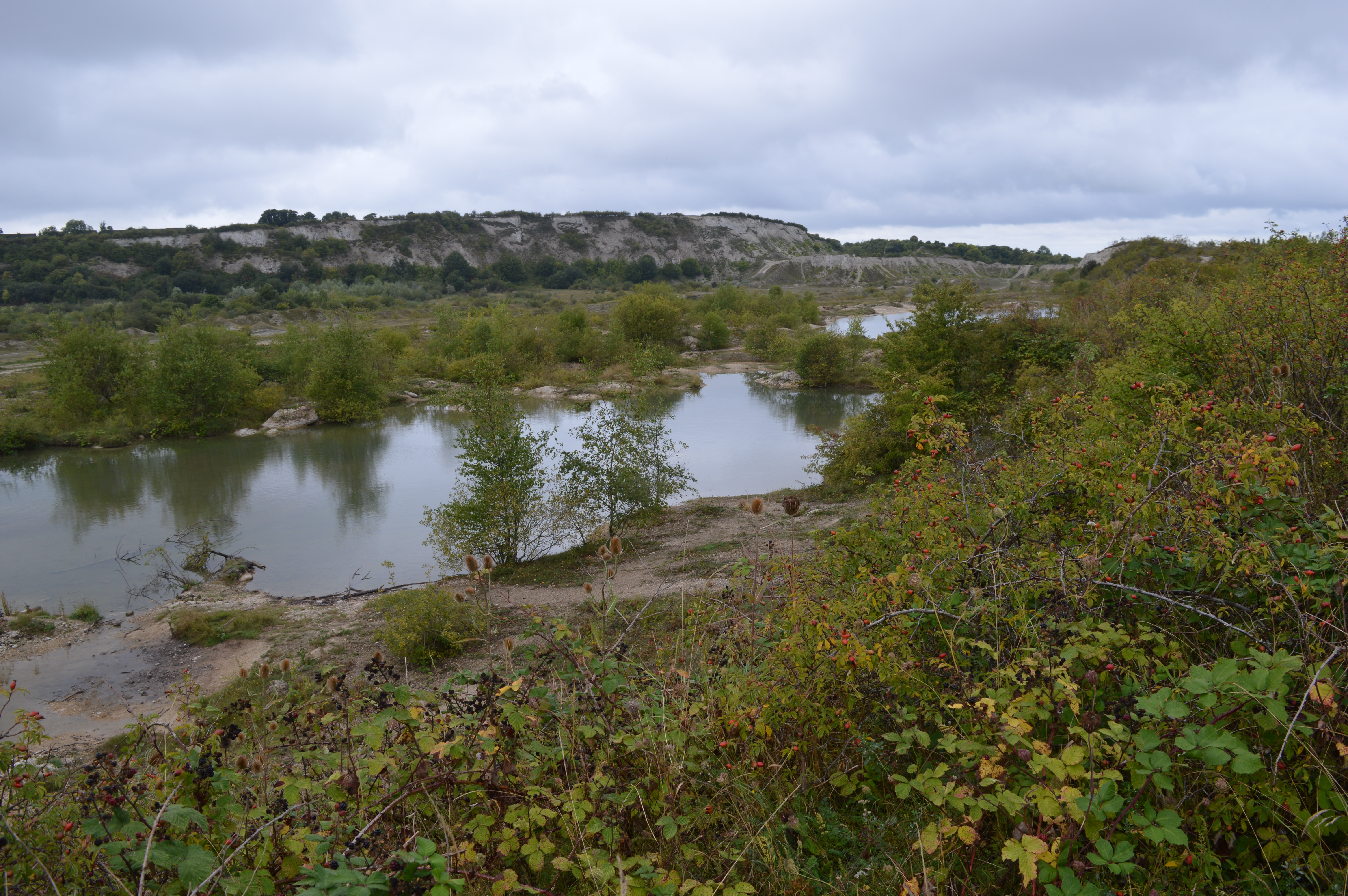 Houghton Regis Marl Lakes, a Site of Special Scientific Interest in Houghton Regis, Bedfordshire.